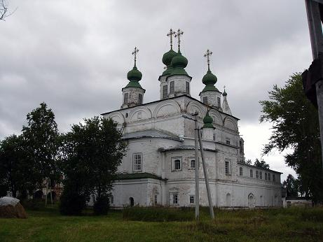 Tritse-Gledensky Monastery near Veliky Ustug. Trotsky Cathedral